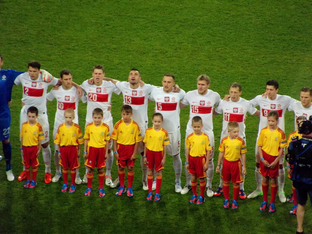 Polish anthem during Czech Republic - Poland, UEFA Euro 2012.